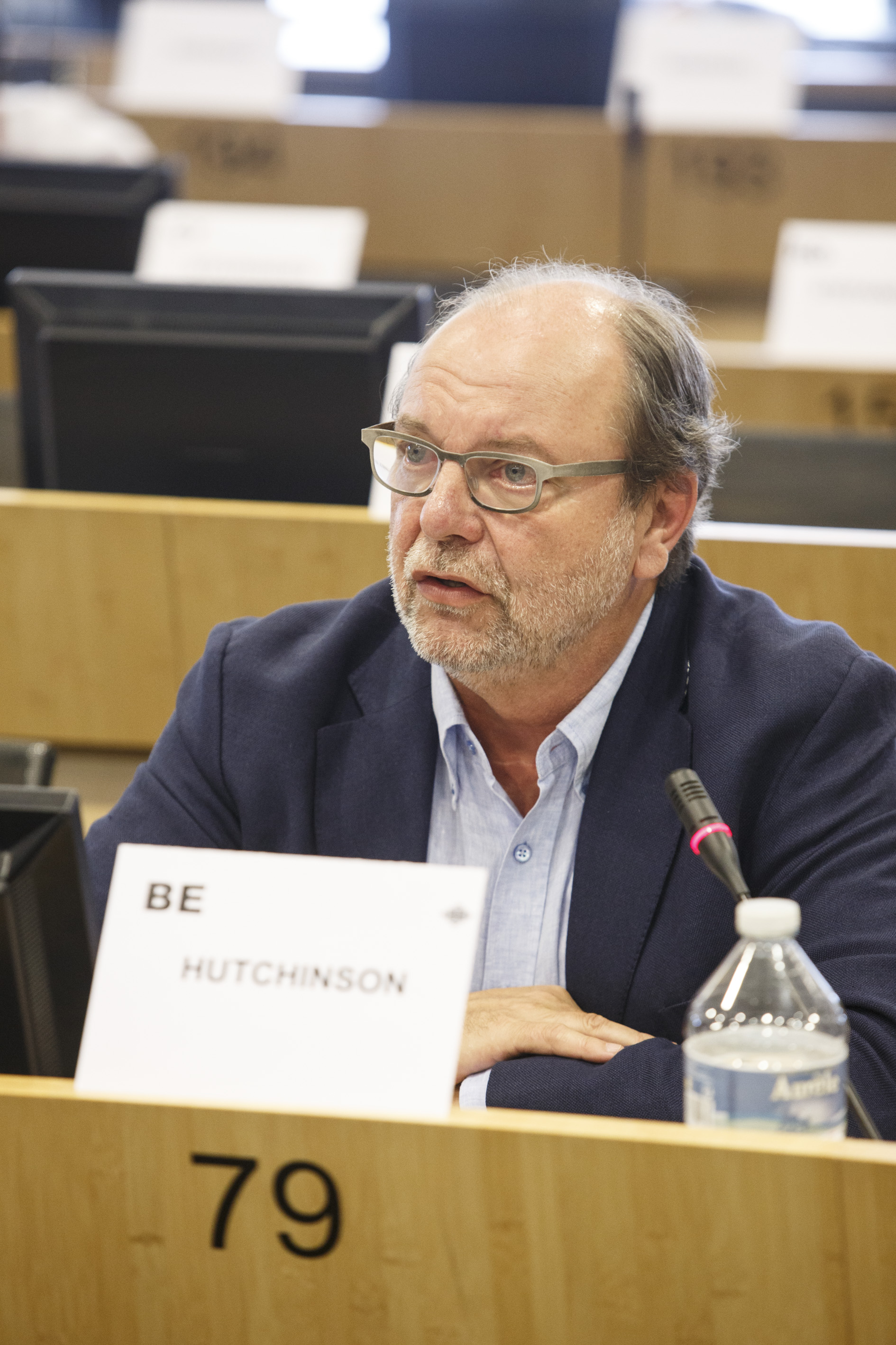 8 July 2015, PES Group meeting Belgium - Brussels - July 2015 © European Union / Wim Daneels